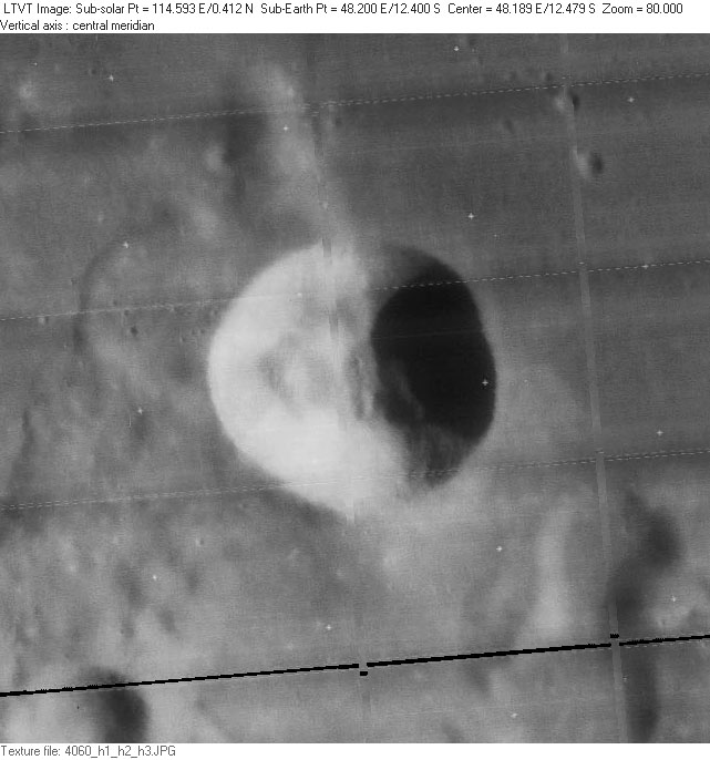 Bellot crater on the Lunar Orbiter LO-IV-060 image